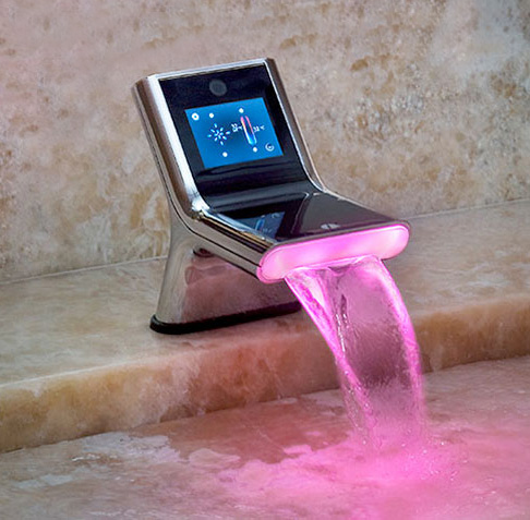 Futuristic faucet for bathroom.